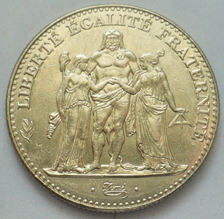 5 Franc 1996